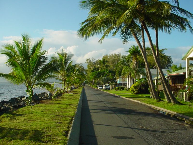 O'shea Esplanade of Machans Beach, Cairns, Queensland, Australia